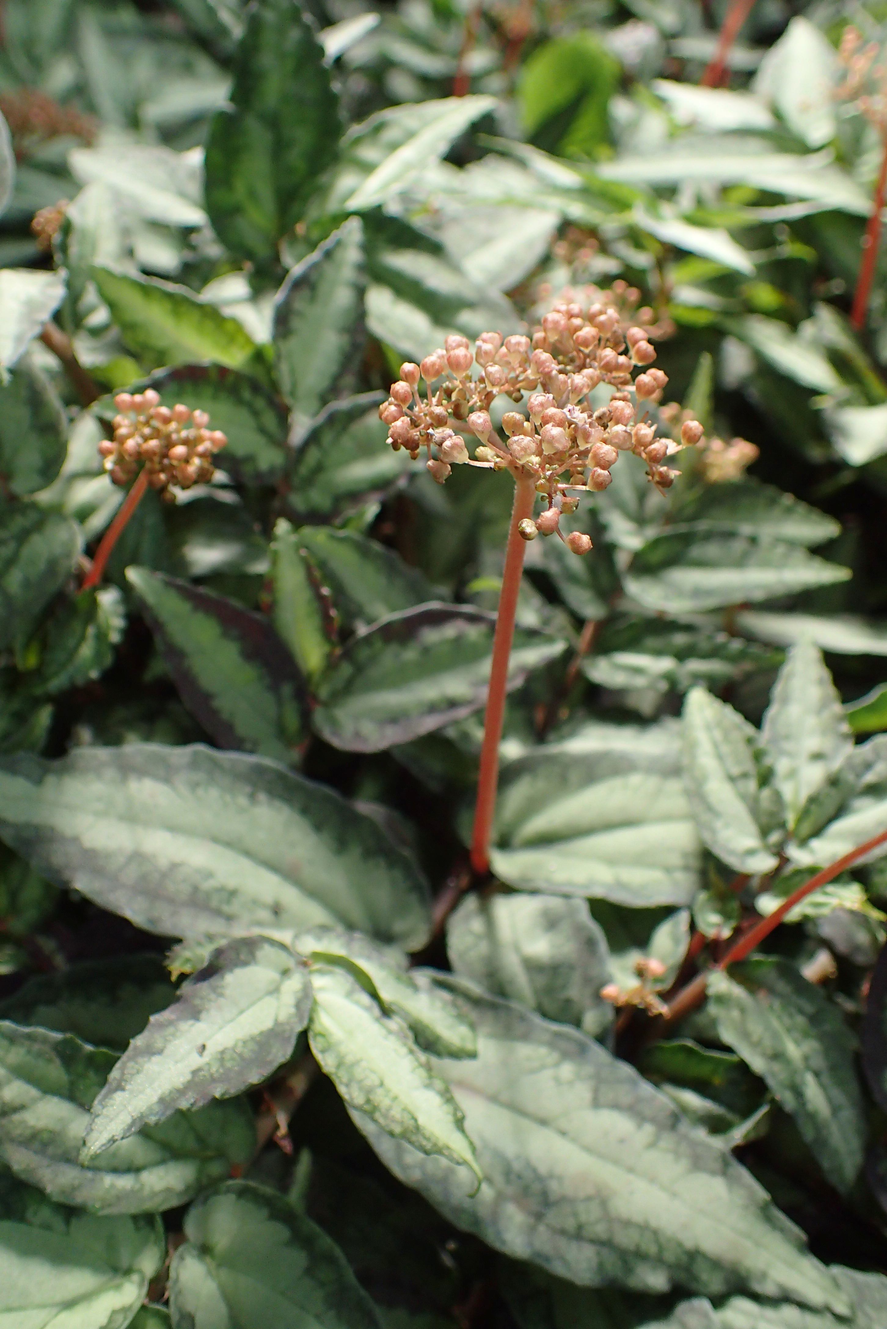 Pellionia repens in Lincoln Park Conservatory, Chicago